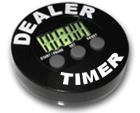 A poker timer dealer button